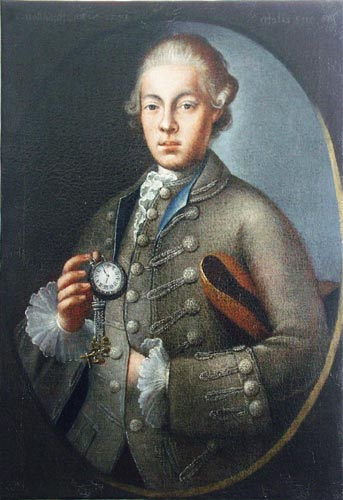 Portrait of a Man holding a clock